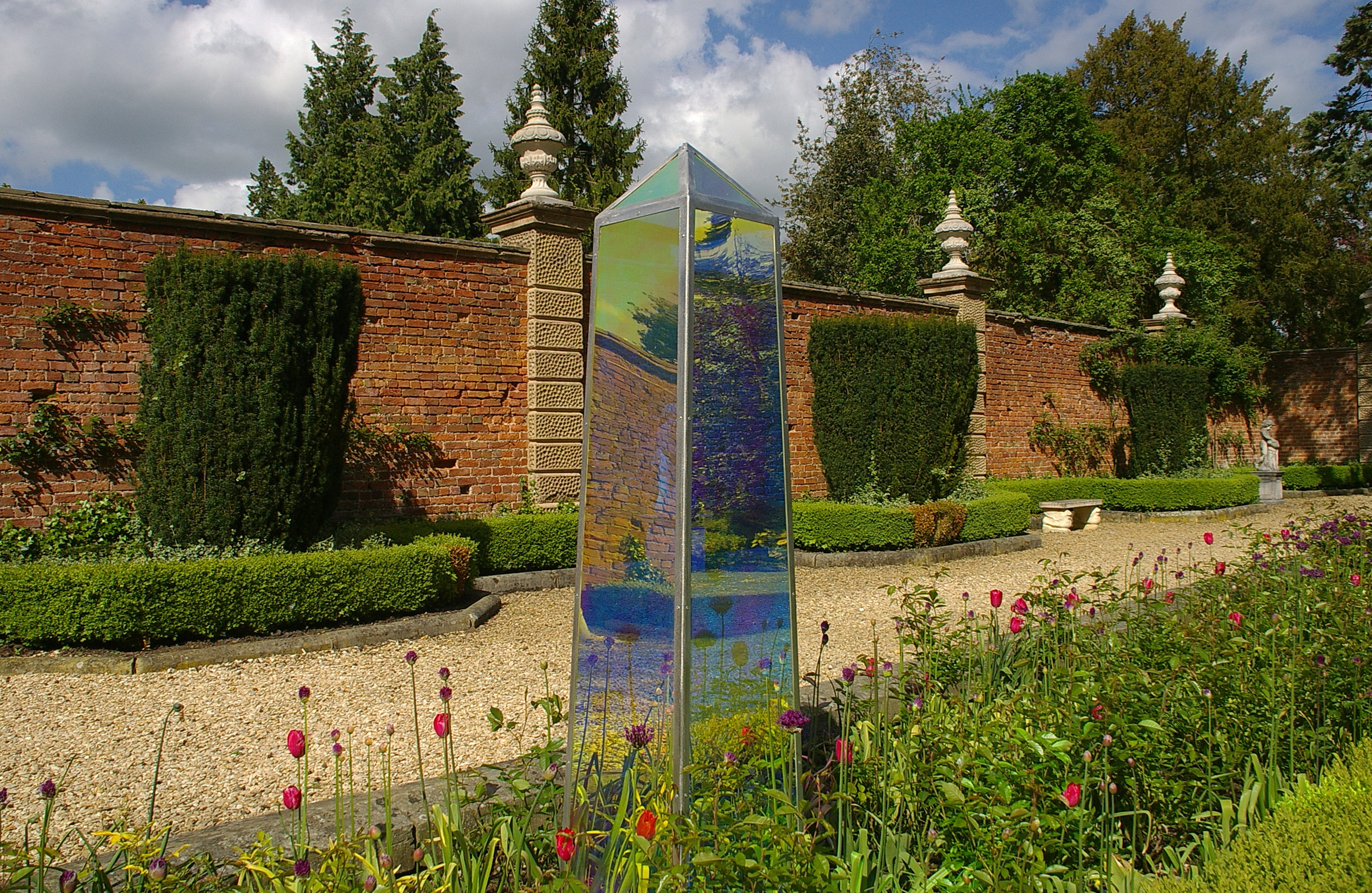 Highnam Court, Gloucester. These glass obelisks are rather pretty.